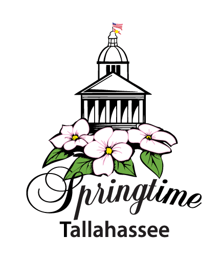 The official logo of Springtime Tallahassee, Inc.